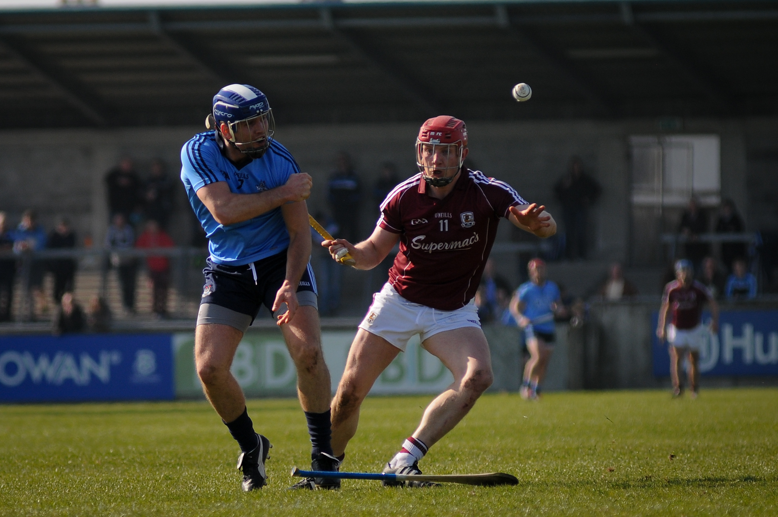 Conal Keaney of Dublin and Joe Canning of Galway in action in the 2015 National Hurling League